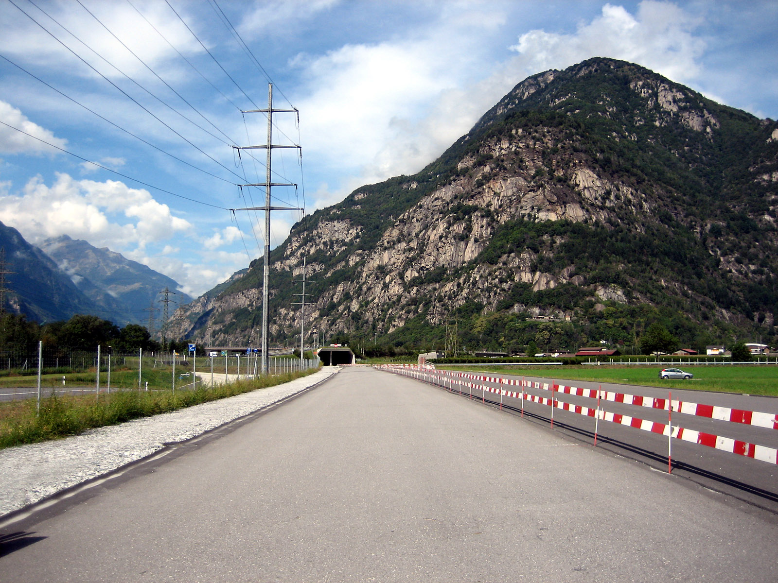 Not a new road but the foundation for the new high-speed rail link south of the new Gotthard Base Tunnel near Biasca, Canton Ticino, Switzerland. Iragna Tunnel and A2 highway exit 'Biasca' in the background; looking northwest.